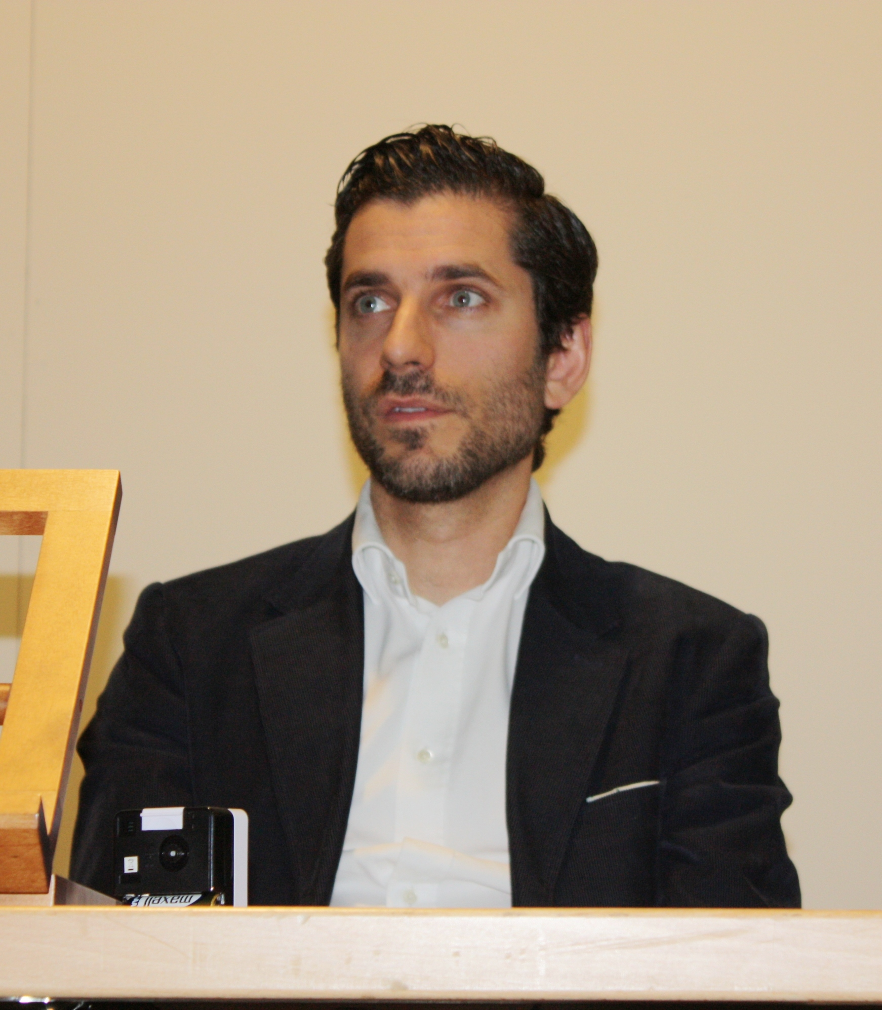 Swedish writer Jens Lapidus at Helsinki Book Fair 2009